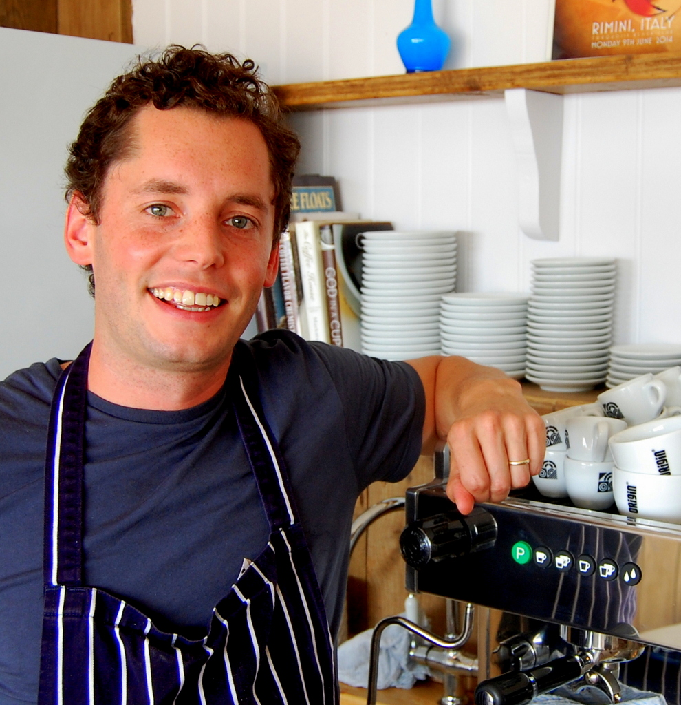 Tristan Stephenson mixologist, drinks industry expert and director of Fluid Movement.